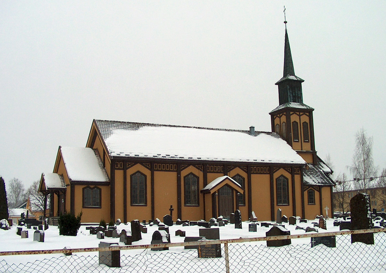 Hønefoss Church